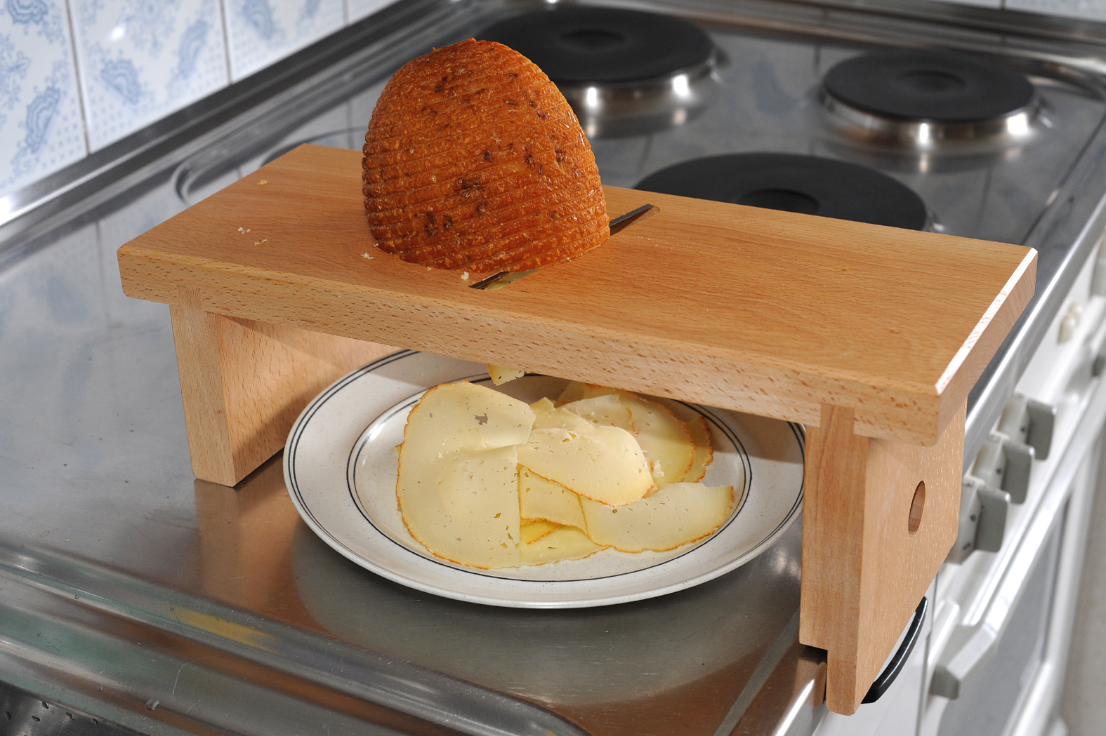 Cheese slicer for hard- and extra hard cheese; here with a brewer cheese from Monstein.